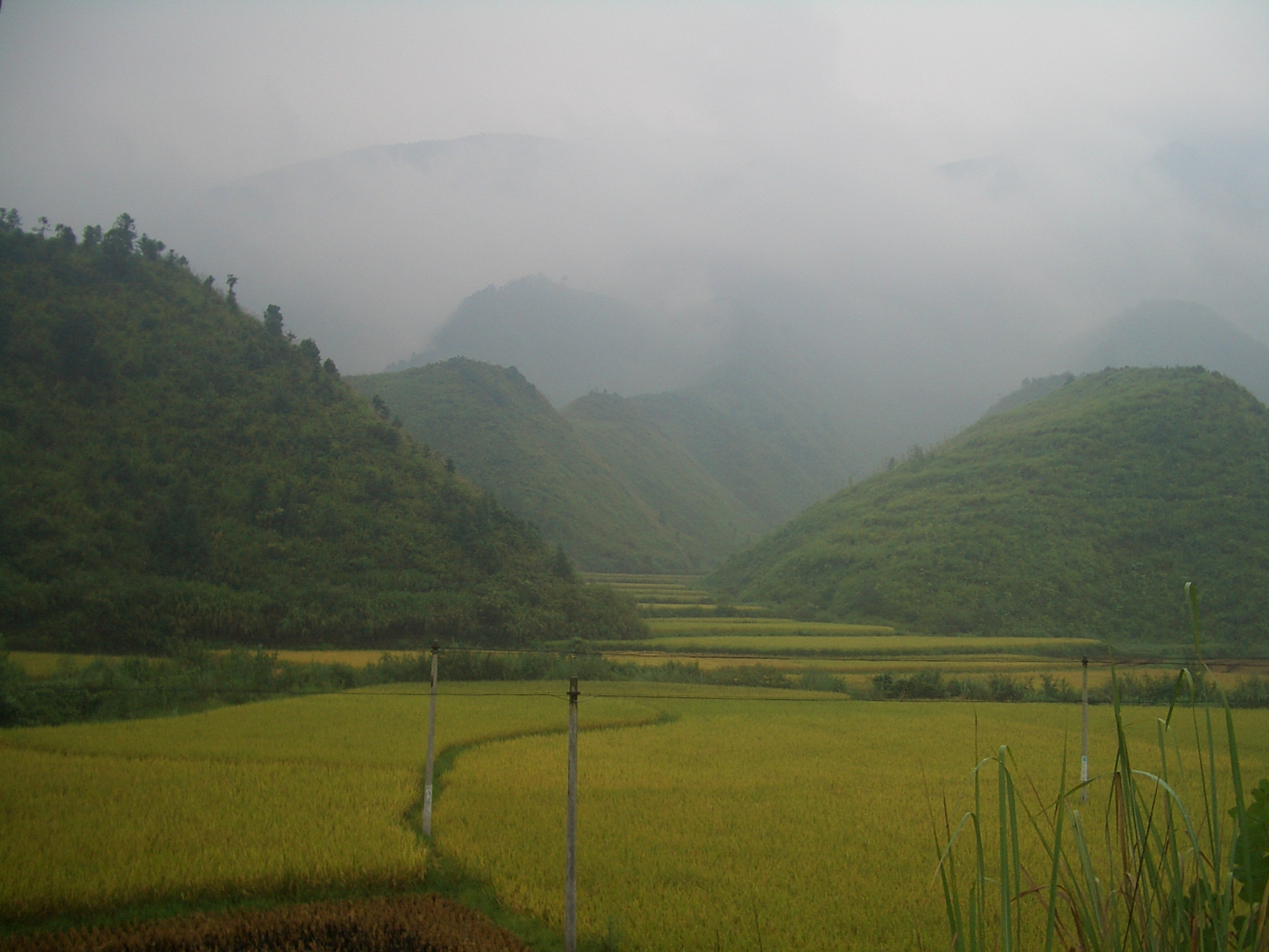 Rice fields in Tongshan County, Hubei, in one of many valleys in Mufu Mountains. Picture taken from G106 east of Tongshan.